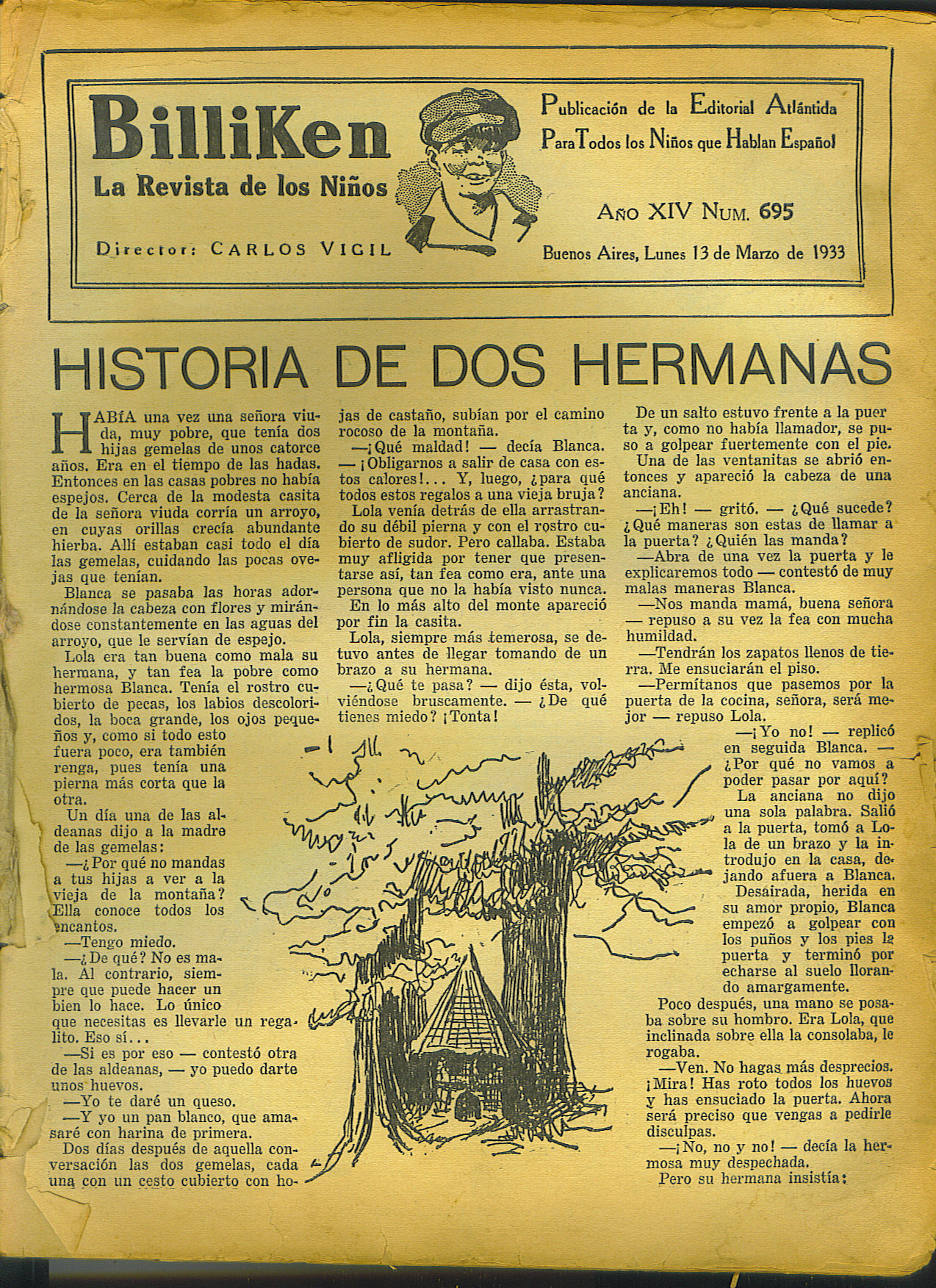 Cover for Billiken Magazine of Argentina.